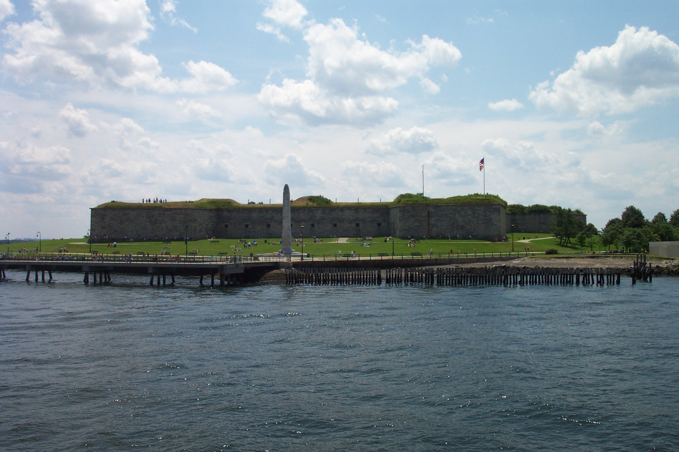 Fort Independence, on Castle Island, in the harbor approaches to Boston, Massachusetts. For more information see the Wikipedia article Castle Island.